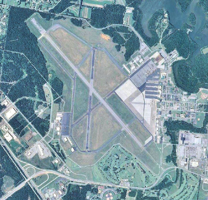 USGS digital orthophoto of Smyrna Airport, formerly Sewart Air Force Base, in Tennessee